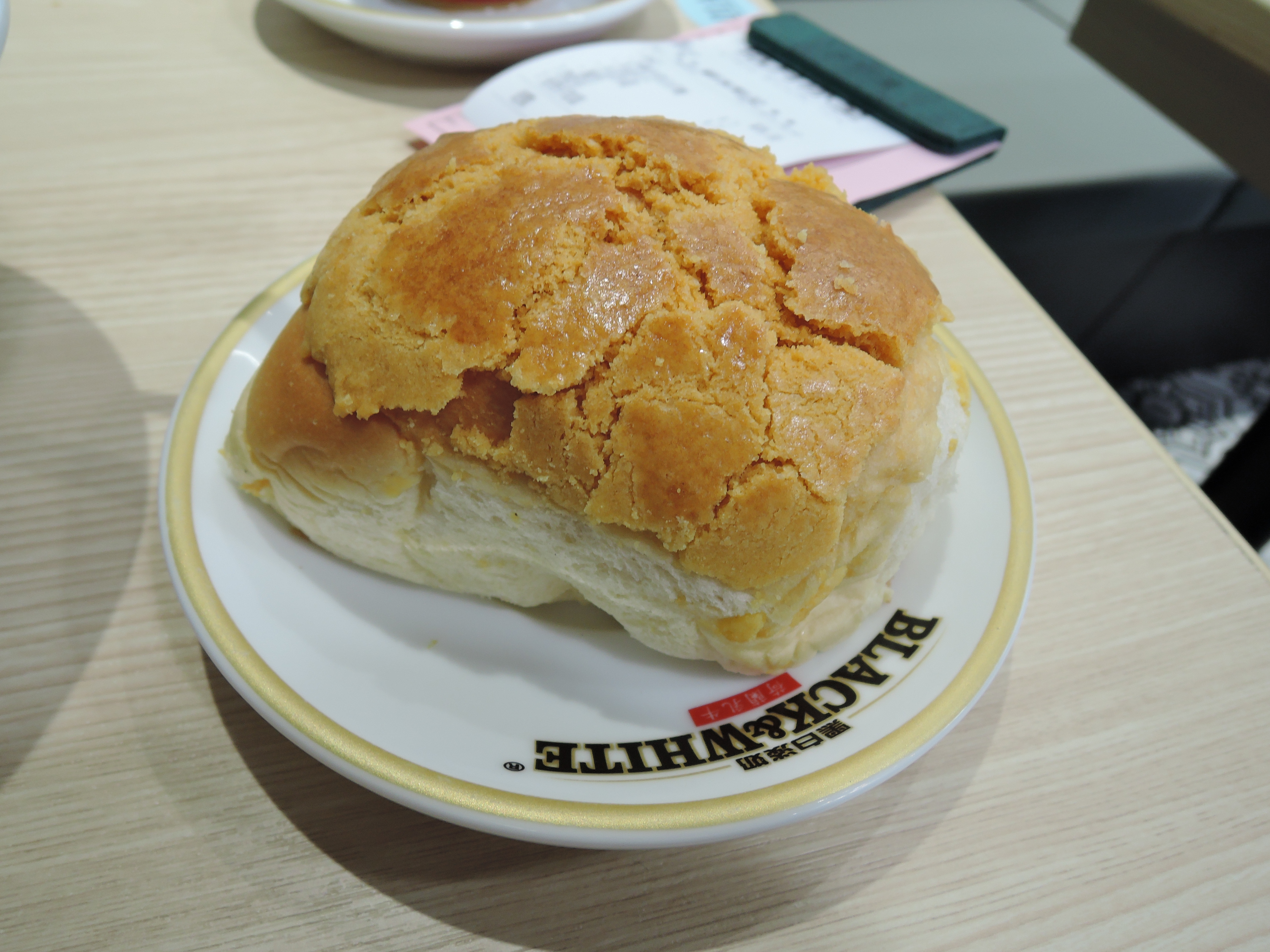 pineapple bun in breakfast at Cafe Moon Ten of local restaurant at my home's shopping mall in yuen long